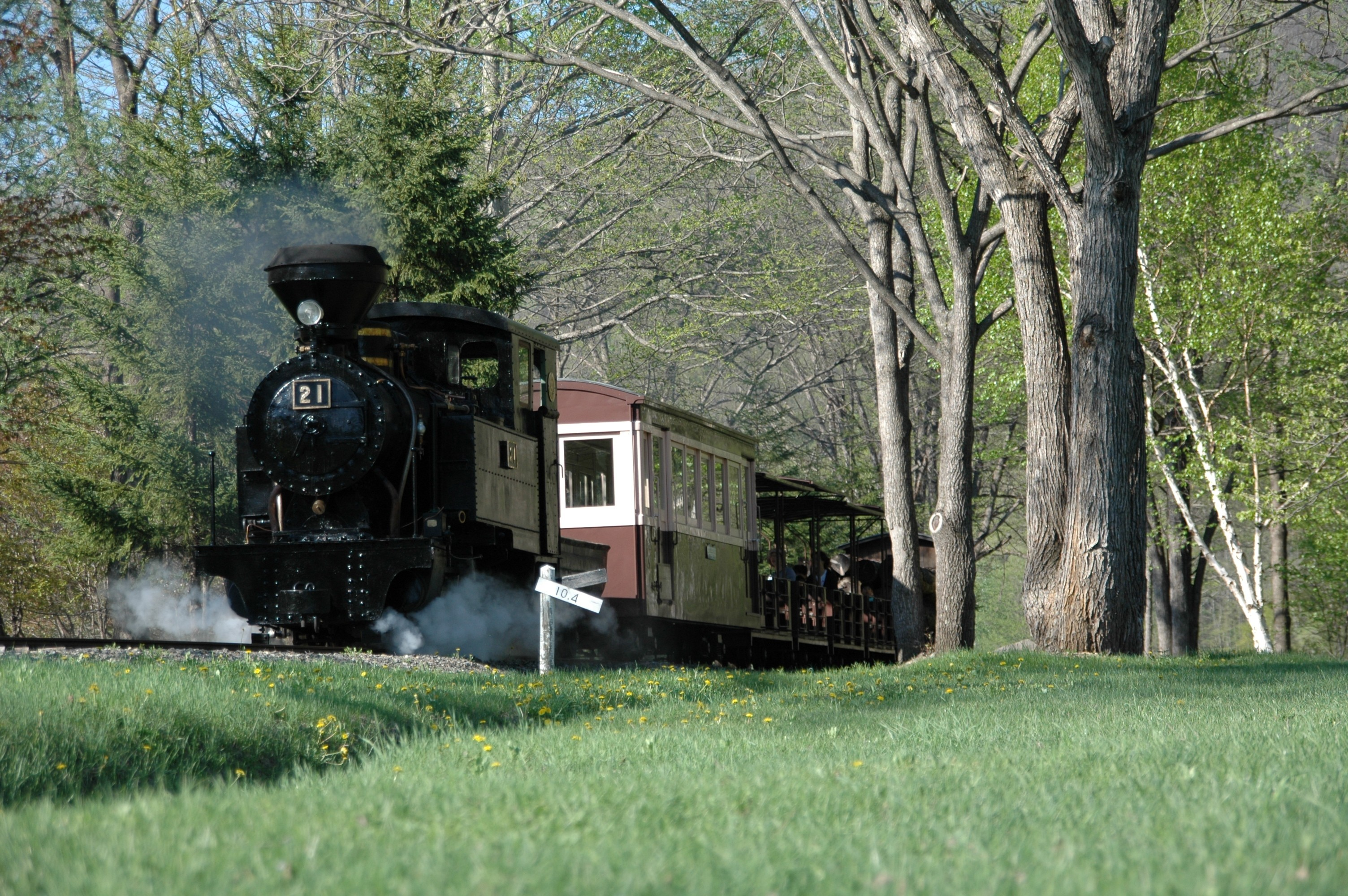 Amemiya 21-go steam locomotive in operation in Engaru Town, Hokkaido, Japan